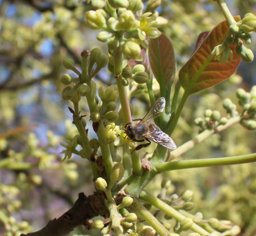 avocado tree (Persea americana)- honeybee on flowers photo: B.navez - 25 SEP 2005 - Reunion Island